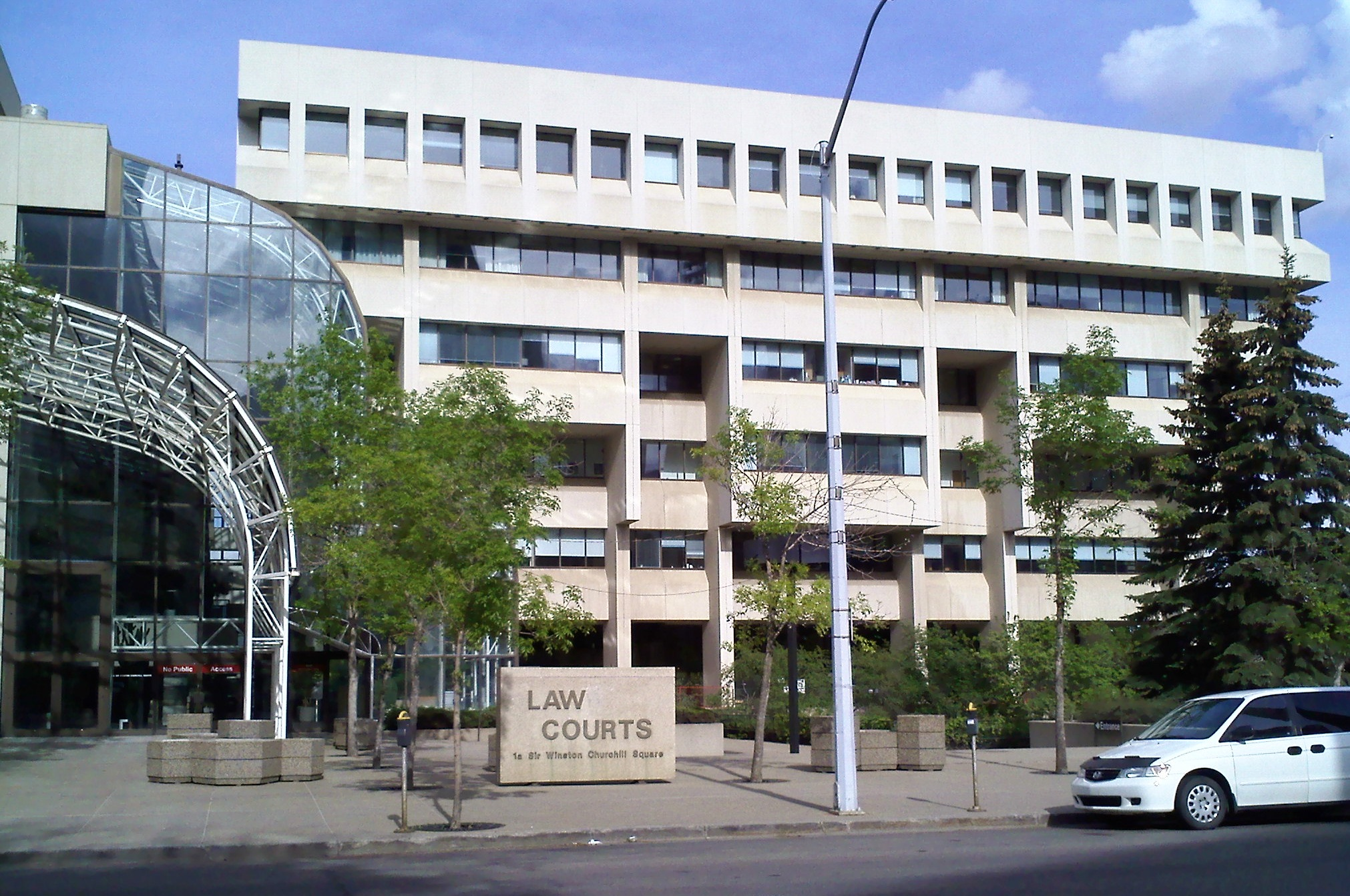 West (1a Churchill Square) side of the Provincial Court of Alberta building in Edmonton.